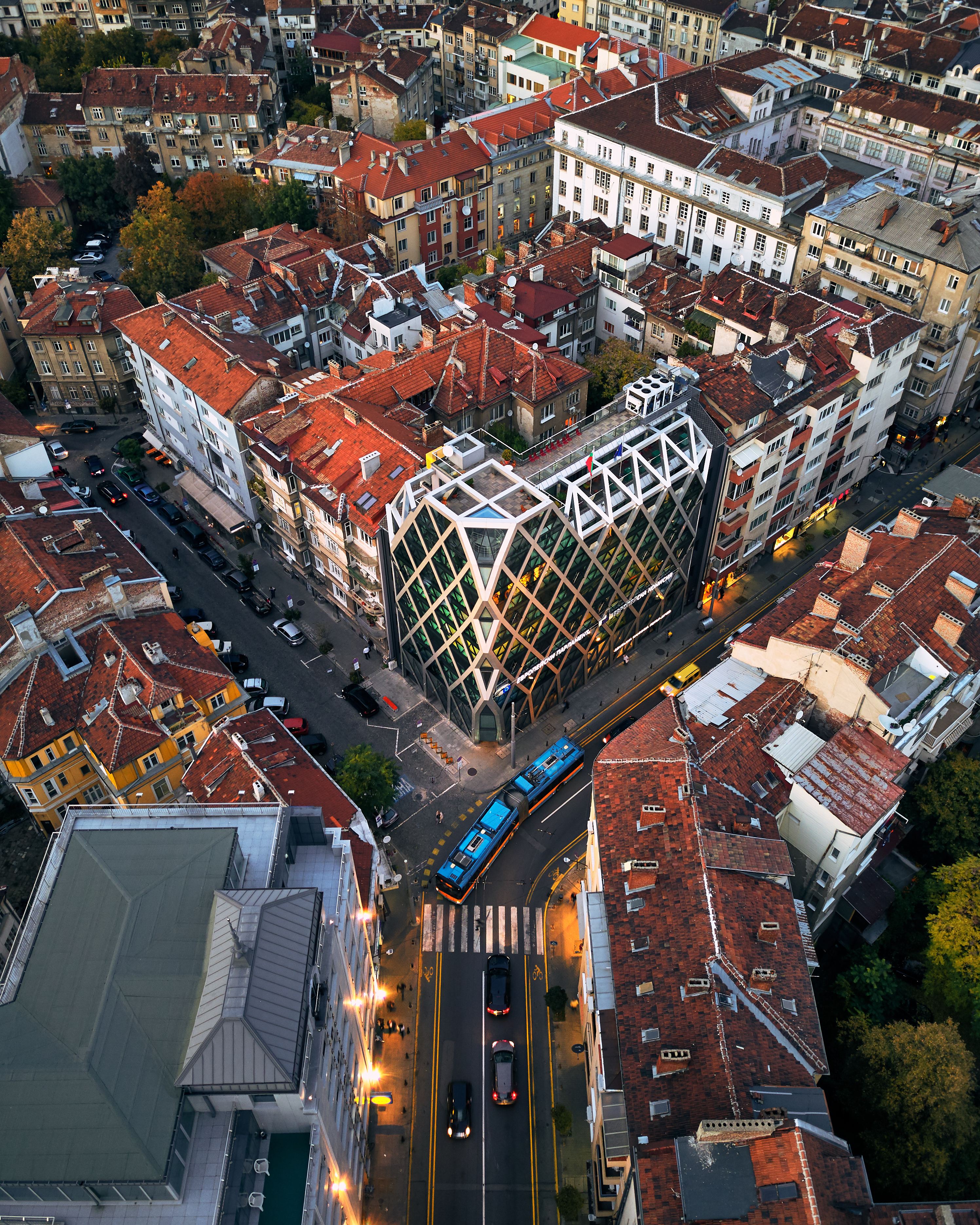 The European Commission in Bulgaria